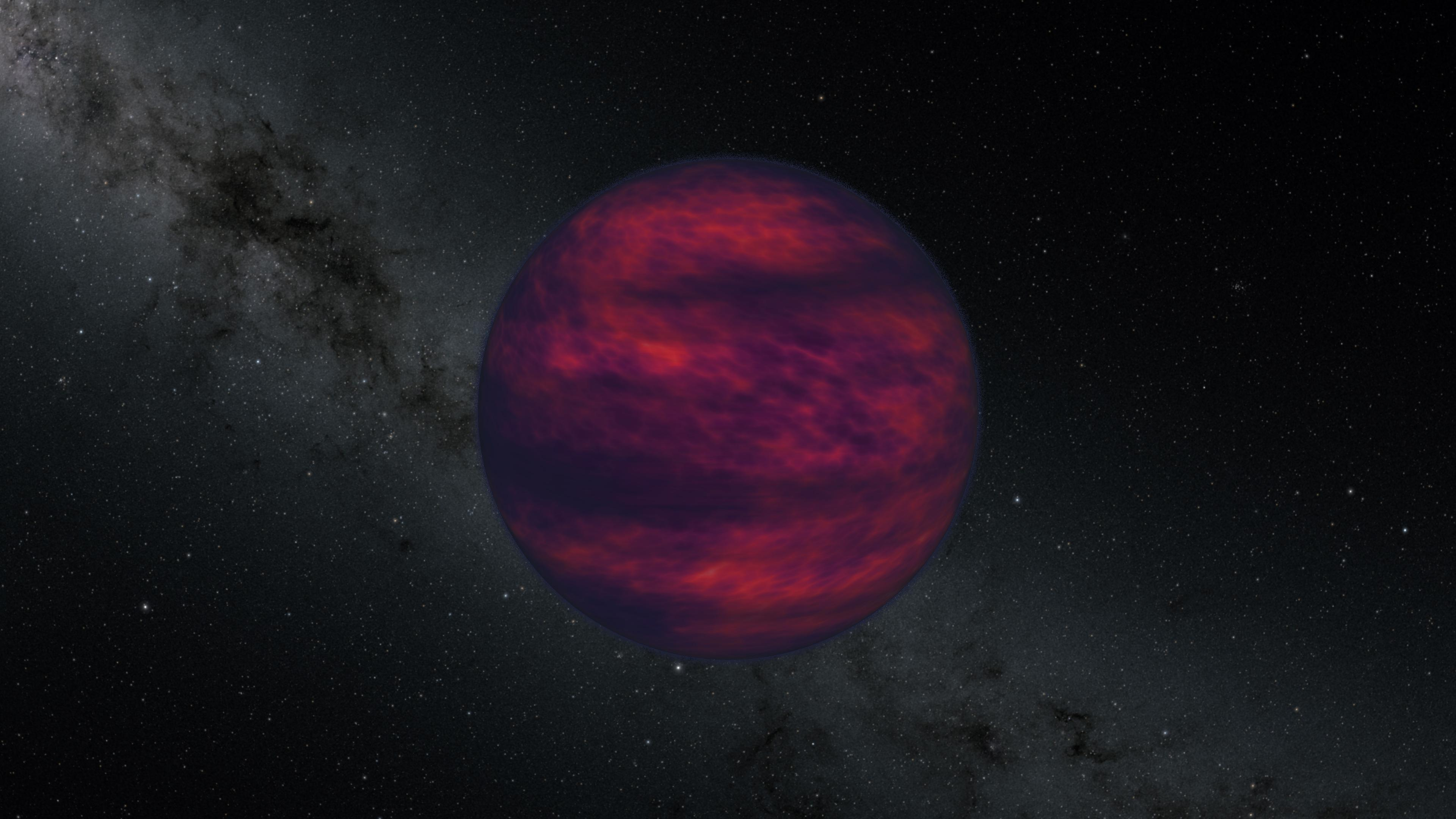 PIA23684: Spitzer Brown Dwarf Wind (Artist's Concept) This artist's concept shows a brown dwarf, an object that is at least 13 times the mass of Jupiter but not massive enough to begin nuclear fusion in its core, which is the defining characteristic of a star. Scientist using NASA's Spitzer Space Telescope recently made the first ever direct measurement of wind on a brown dwarf. NASA's Jet Propulsion Laboratory, Pasadena, Calif., manages the Spitzer Space Telescope mission for NASA's Science Mission Directorate, Washington. Science operations are conducted at the Spitzer Science Center at the California Institute of Technology, also in Pasadena. Caltech manages JPL for NASA. More information on Spitzer can be found at its website